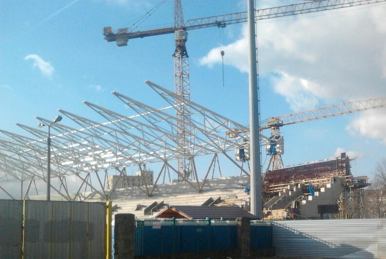 Construction of Tsp stadium in Bielsko Biala